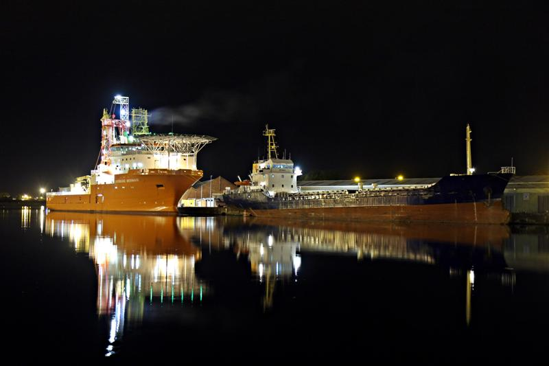 From beside Duke Street bridge in Birkenhead, these two ships were visible at about 3am, berthed on the Wallasey side of West Float. To the left of the picture is the multi-purpose offshore vessel Normand Mermaid, with a helicopter pad on the fo'c'sle. To the right is the cargo ship Most Sky, which has had her name painted over, since being detained and laid up, in Birkenhead, in 2010.